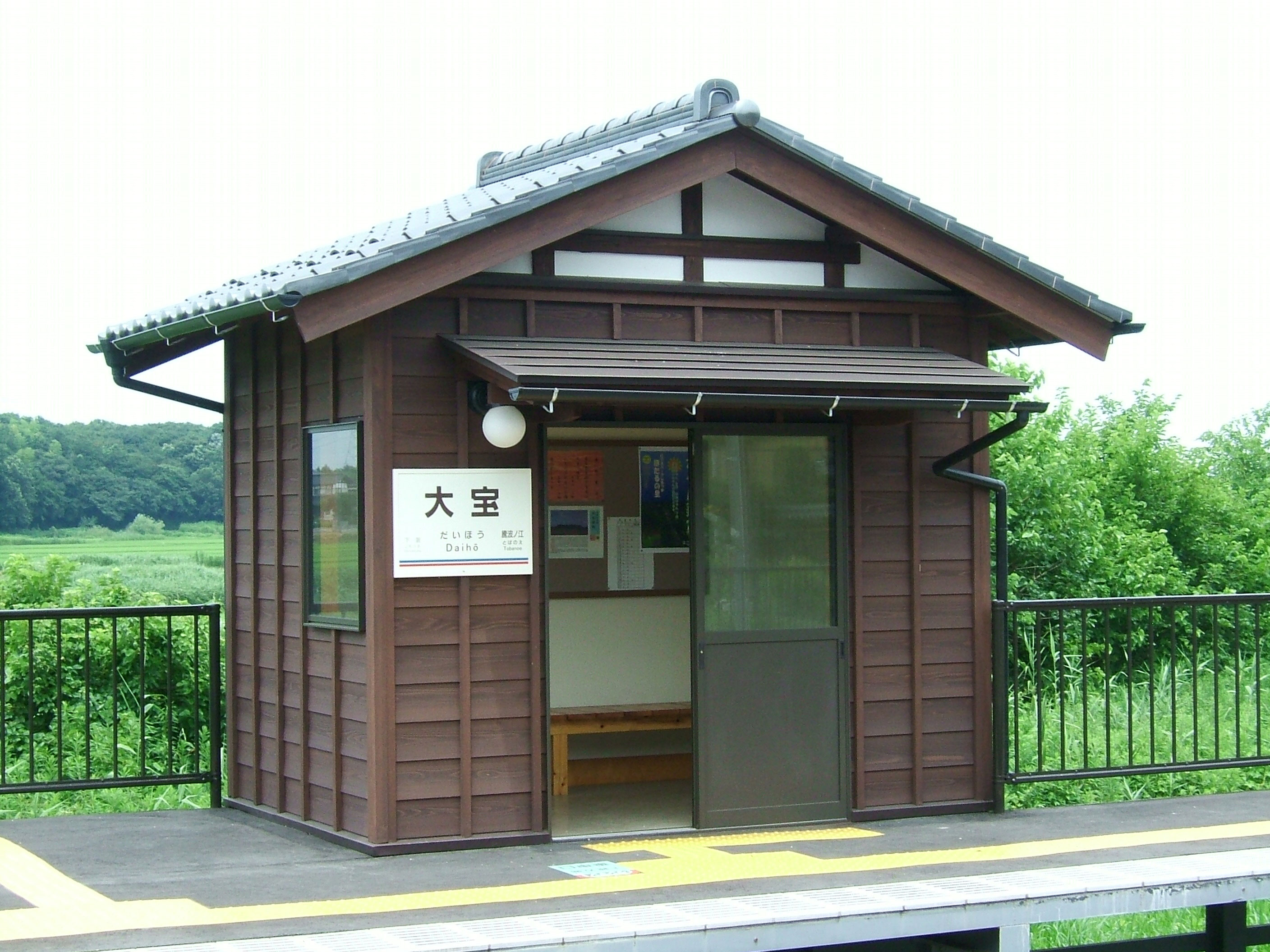 Daihō Station waiting room on the platform for Shomodate (Kanto Railway Jōsō Line)